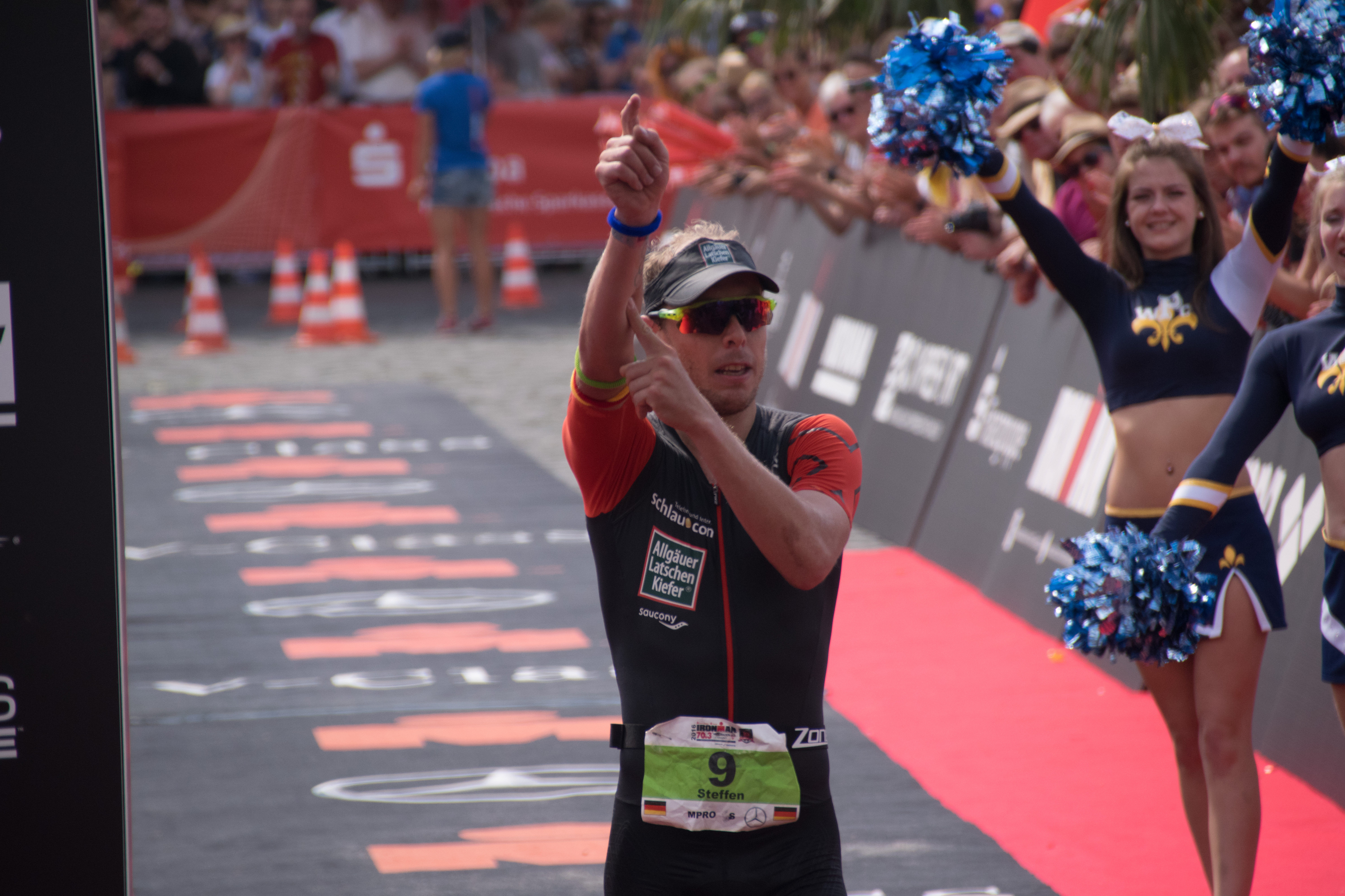 Ironman 70.3 Germany am 14. August 2016 in Wiesbaden